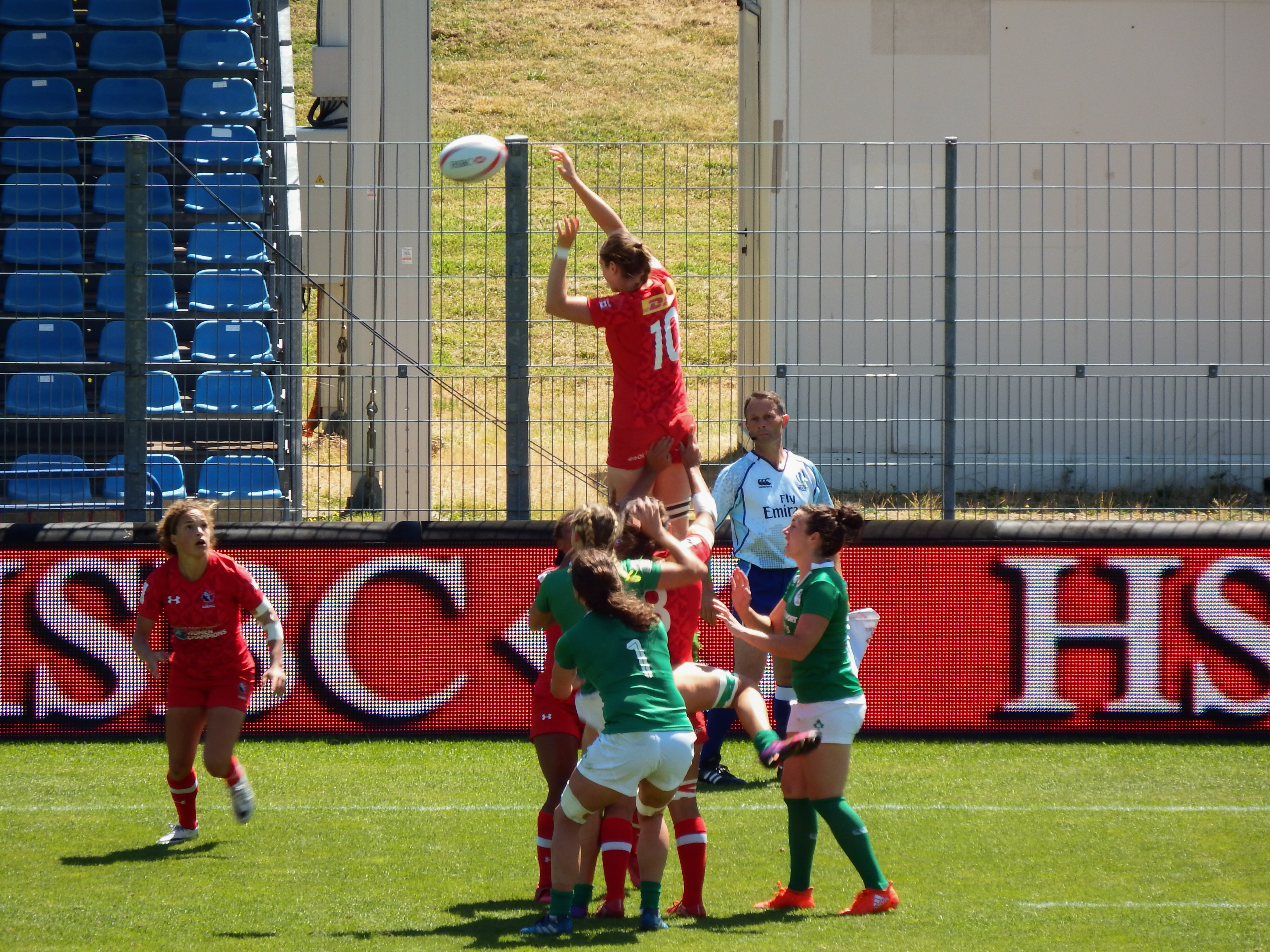 2017 France Women's Sevens — 25 June 2017, stade Gabriel-Montpied. Match between: Canada women's national rugby sevens team — Ireland women's national rugby sevens team